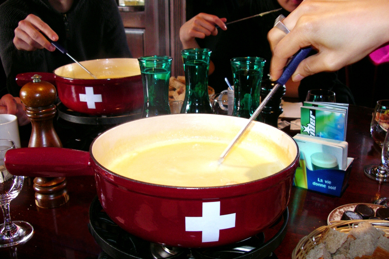 Swiss fondue